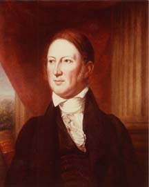 Portrait of Samuel Sprigg by Charles Willson Peale.